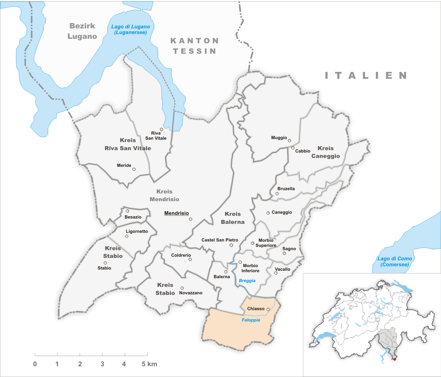 Municipality Chiasso Artist: Tschubby